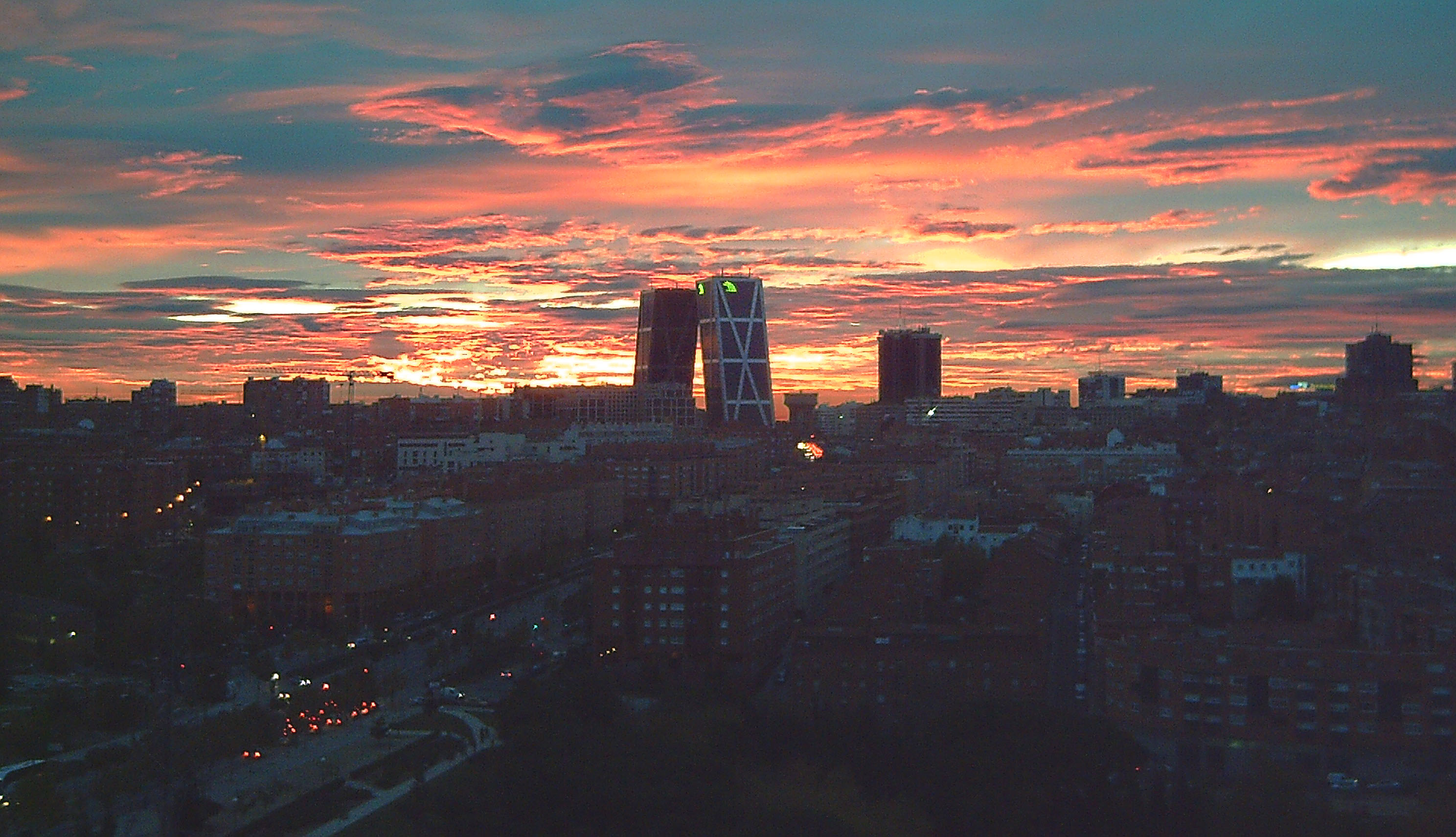 Sunrise in Tetuán district in Madrid (Spain).